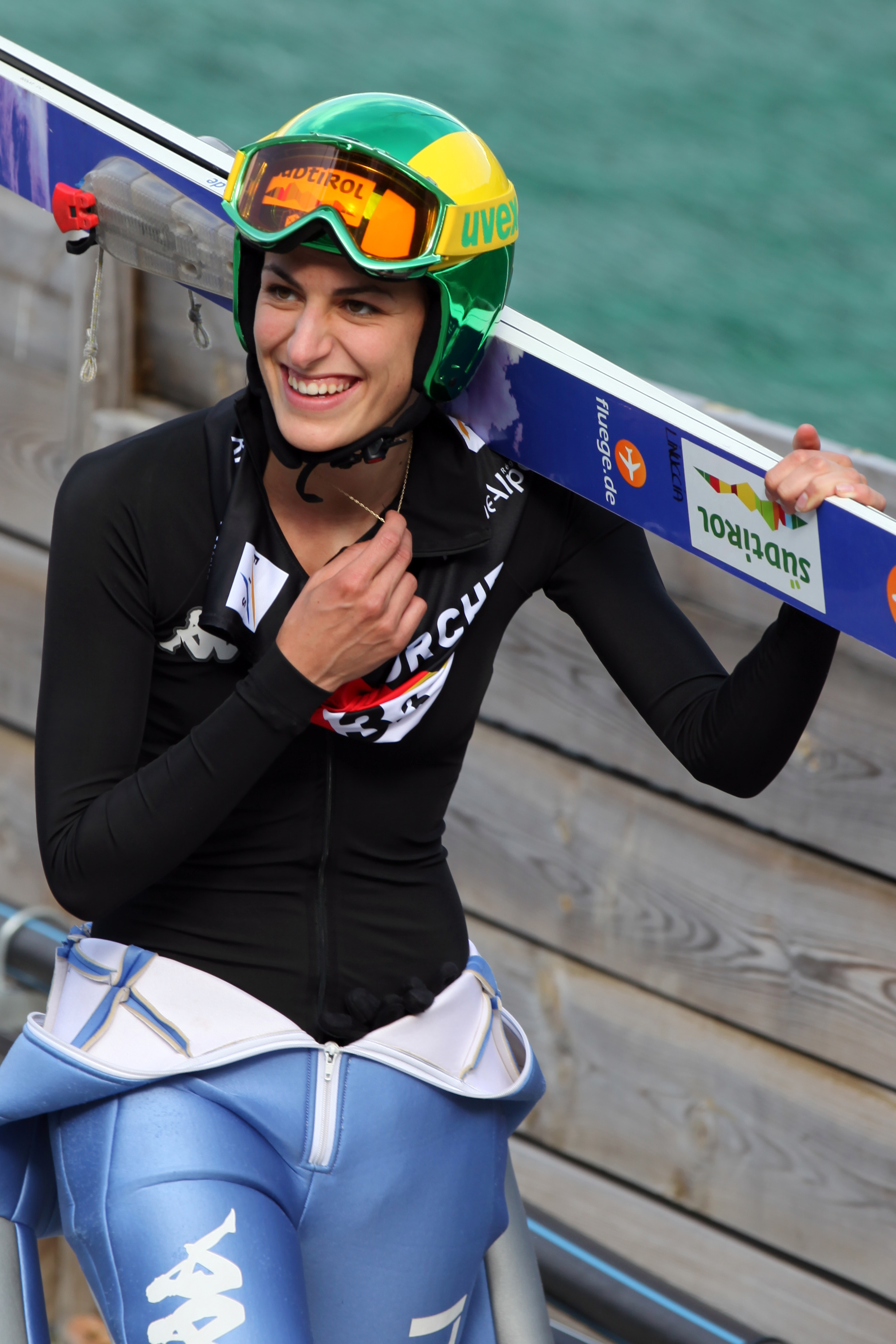 Evelyn Insam at the Summer Grand Prix (training) ski jumping in Courchevel